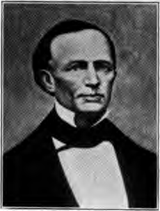 Daniel H. Lownsdale From: Gray, William Henry. 1870. A history of Oregon, 1792-1849, drawn from personal observation and authentic information. Portland, Or: Harris & Holman